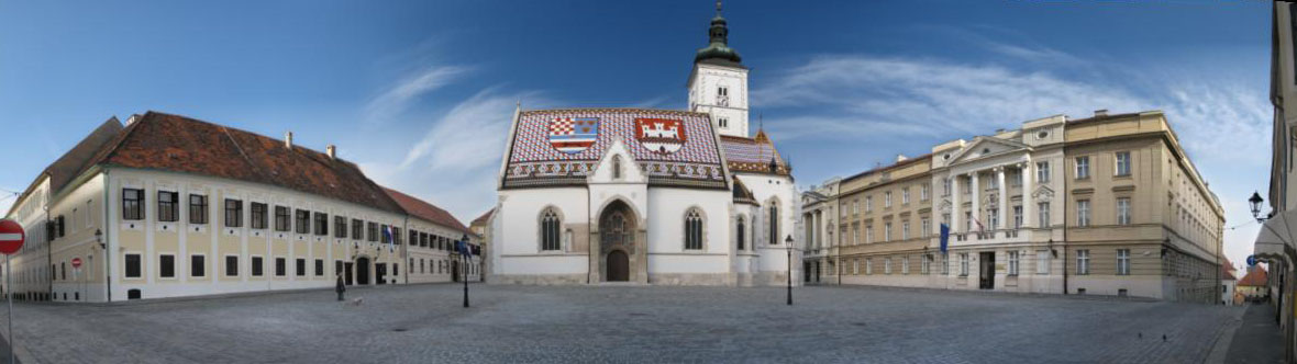 St. Mark's Square in Zagreb, Croatia (panoramic)